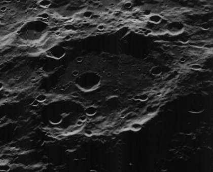 Oblique view of Lippmann, on the far side of the moon, facing west.